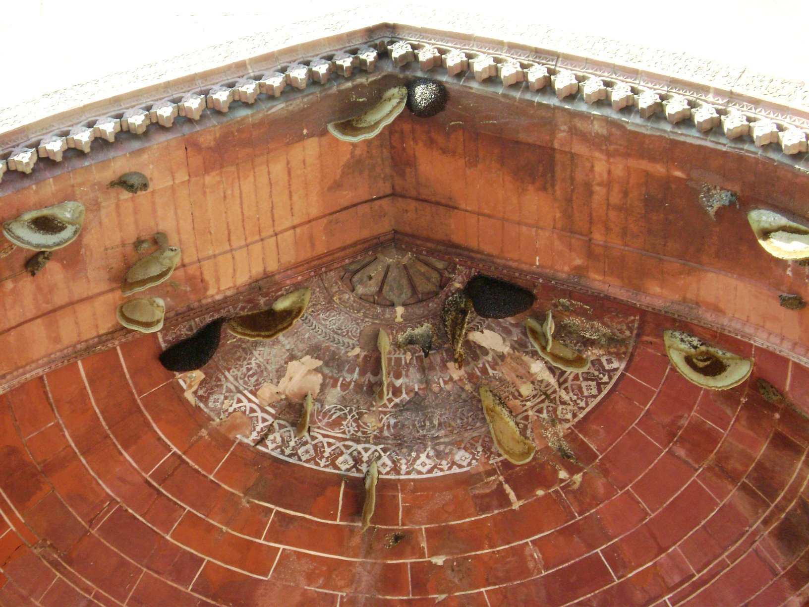 Honeycombs at Buland Darwaza